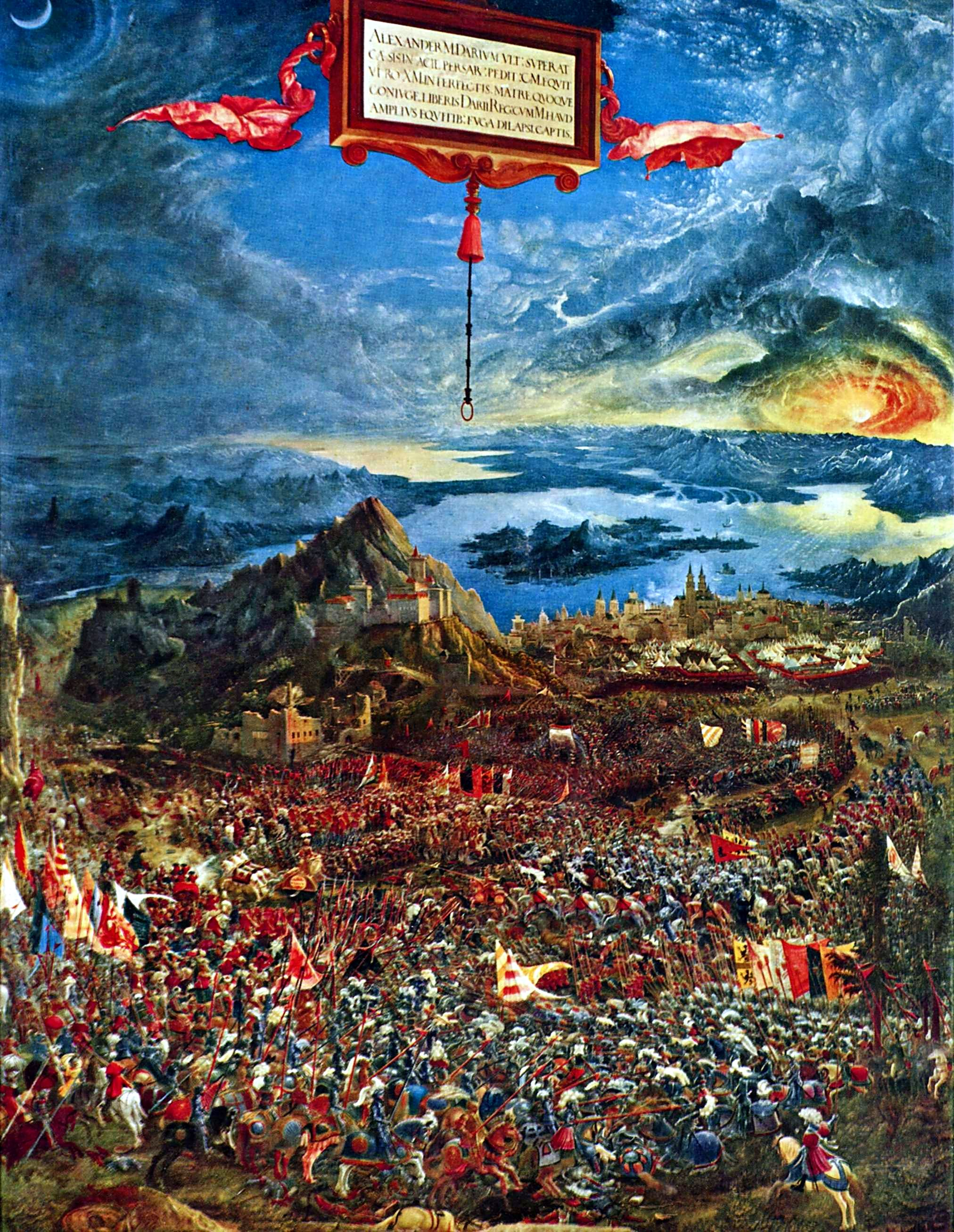 Battle of Alexander the Great against Persian King Darius